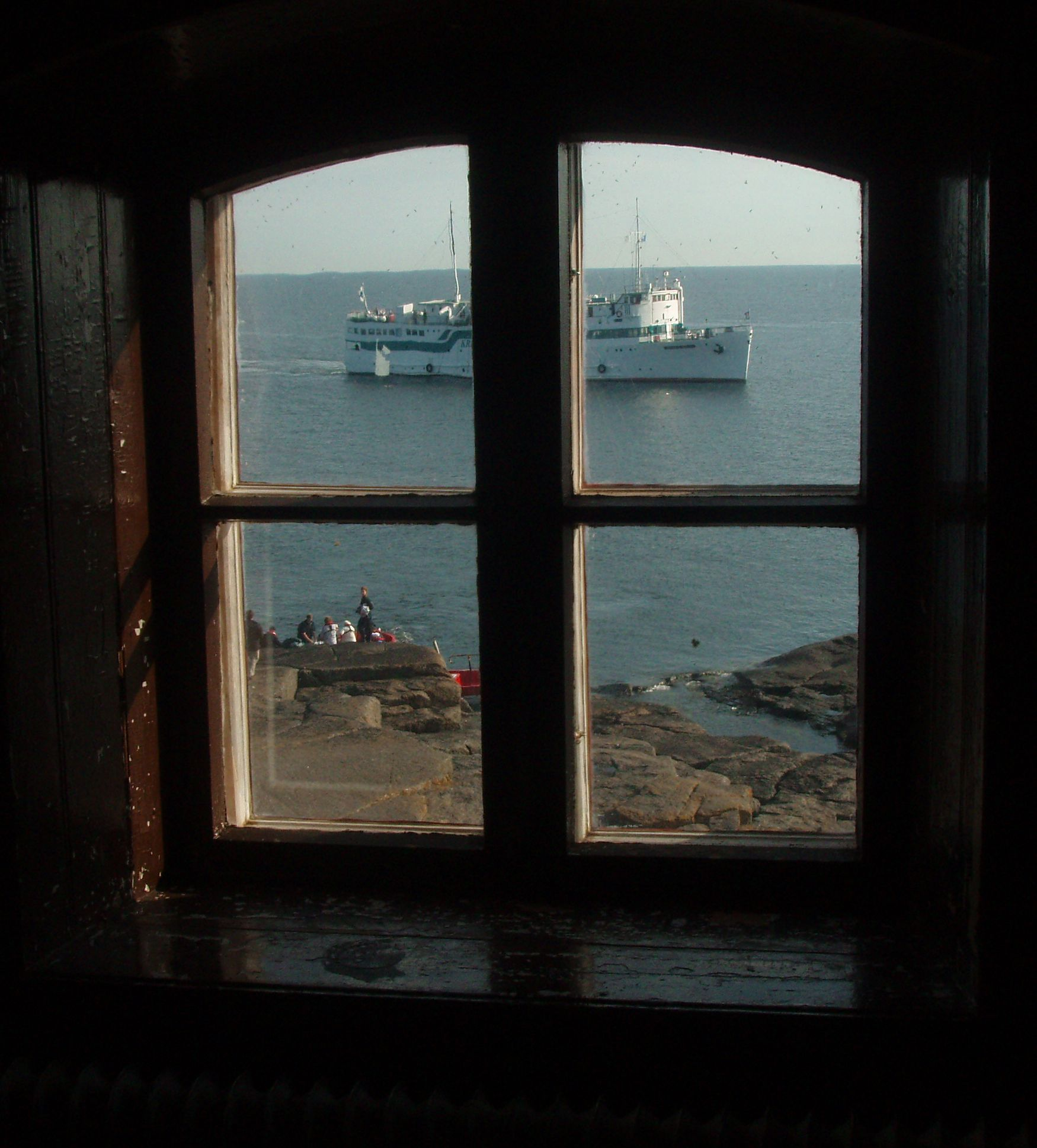 Small cruise vessel MS Kristina Brahe (built 1943 as USS PCE 830) seen from a window in the Märket lighthouse